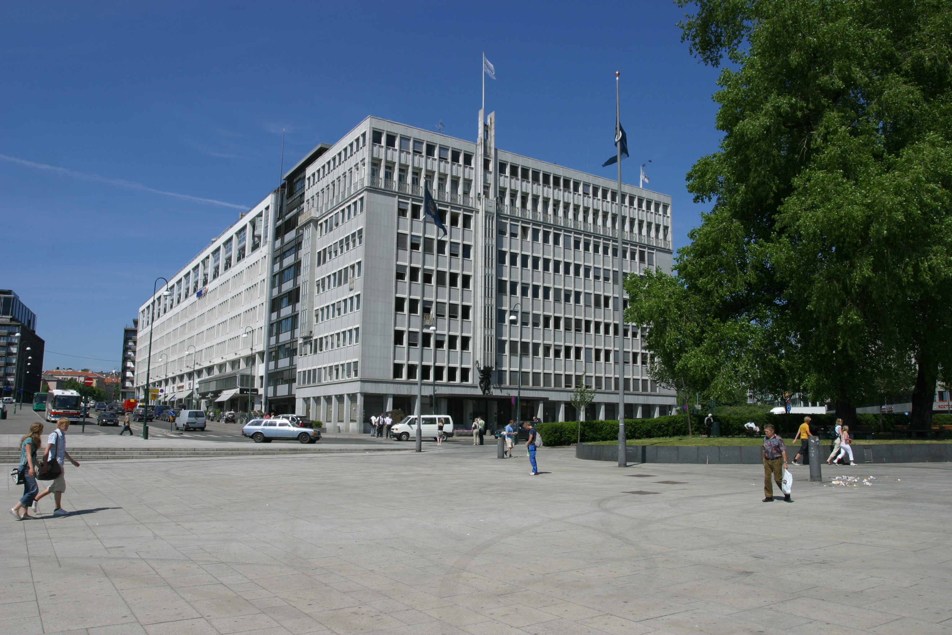 Picture of Dronning Mauds gate (Oslo - Norway)